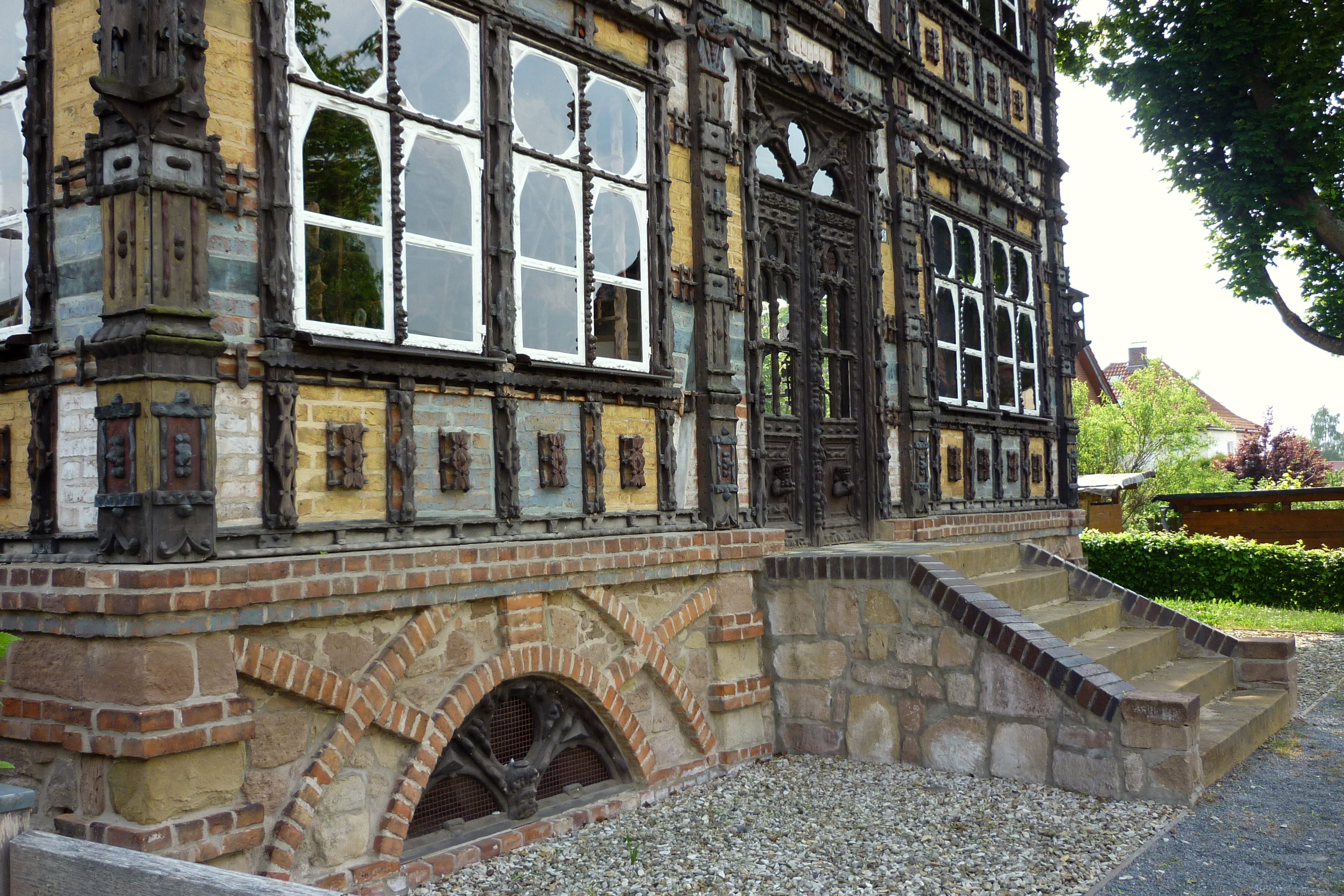 Lemgo (Germany), Junkerhaus.